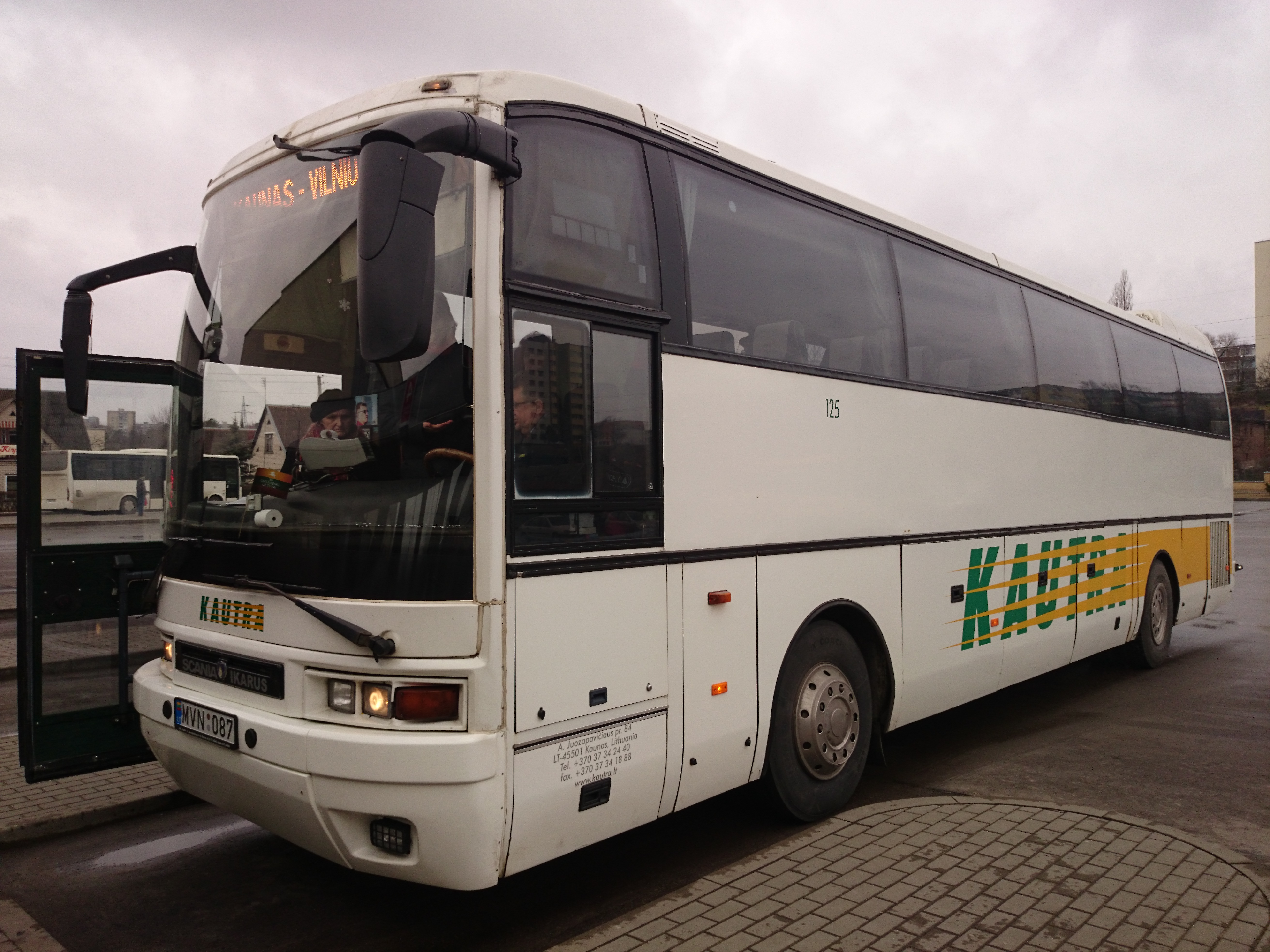 Kautra